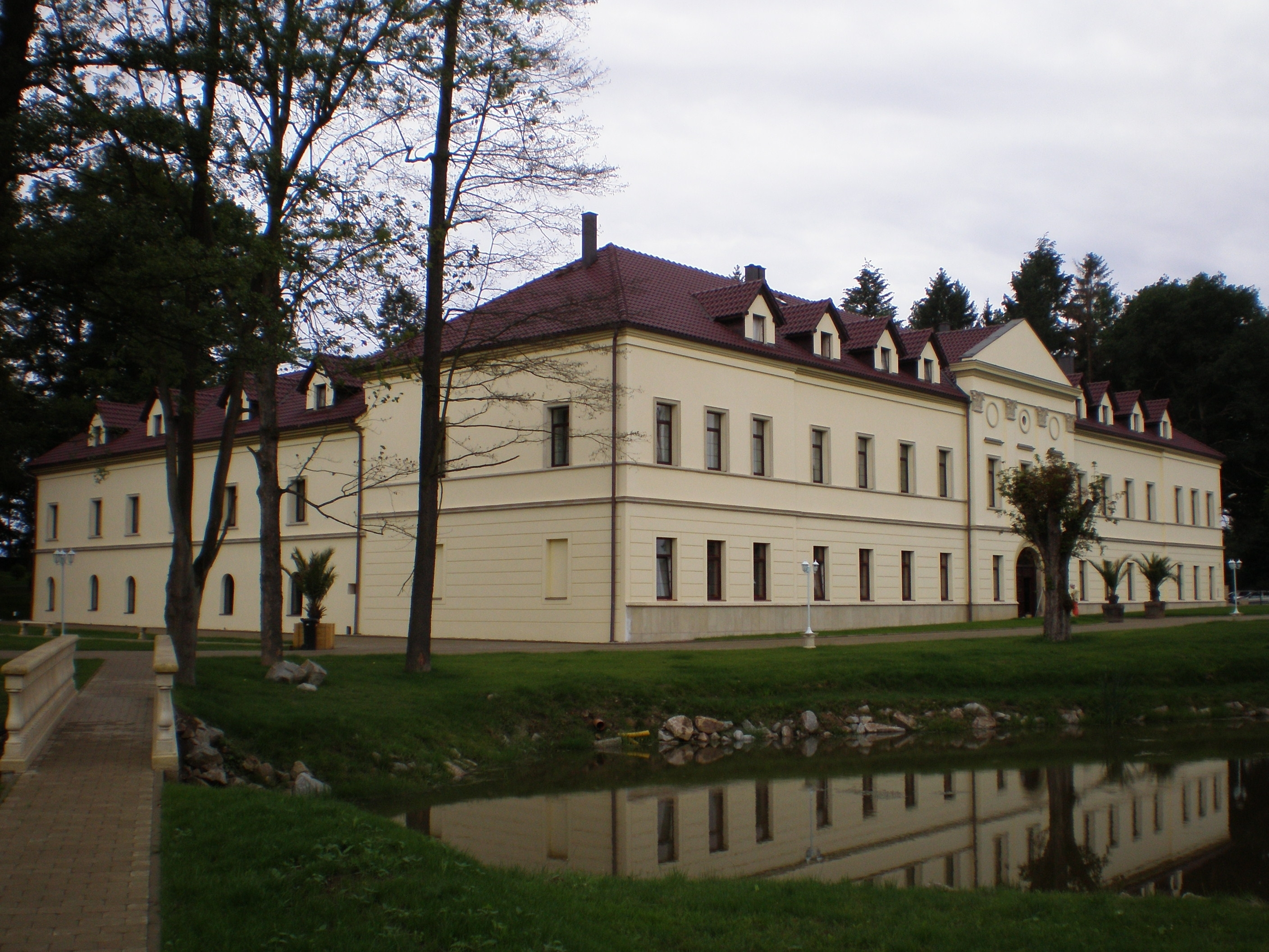 Kamenný Dvůr Chateau, City of Kynšperk nad Ohří, Karlovy Vary Region Česky: Zámek Kamenný Dvůr, Kynšperk nad Ohří, Karlovarský kraj